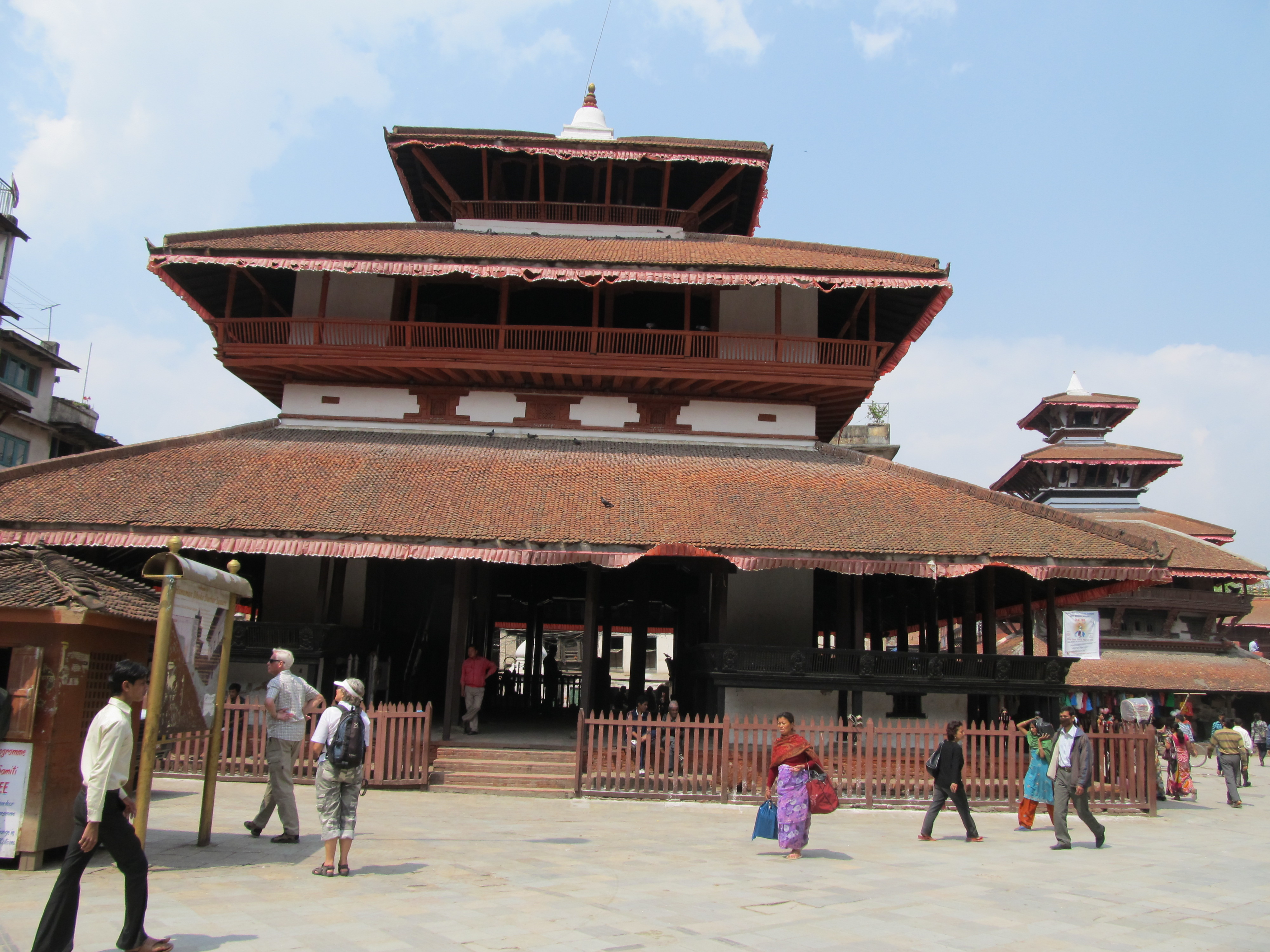 Kathmandu Darbar - Kasthamandap Temple